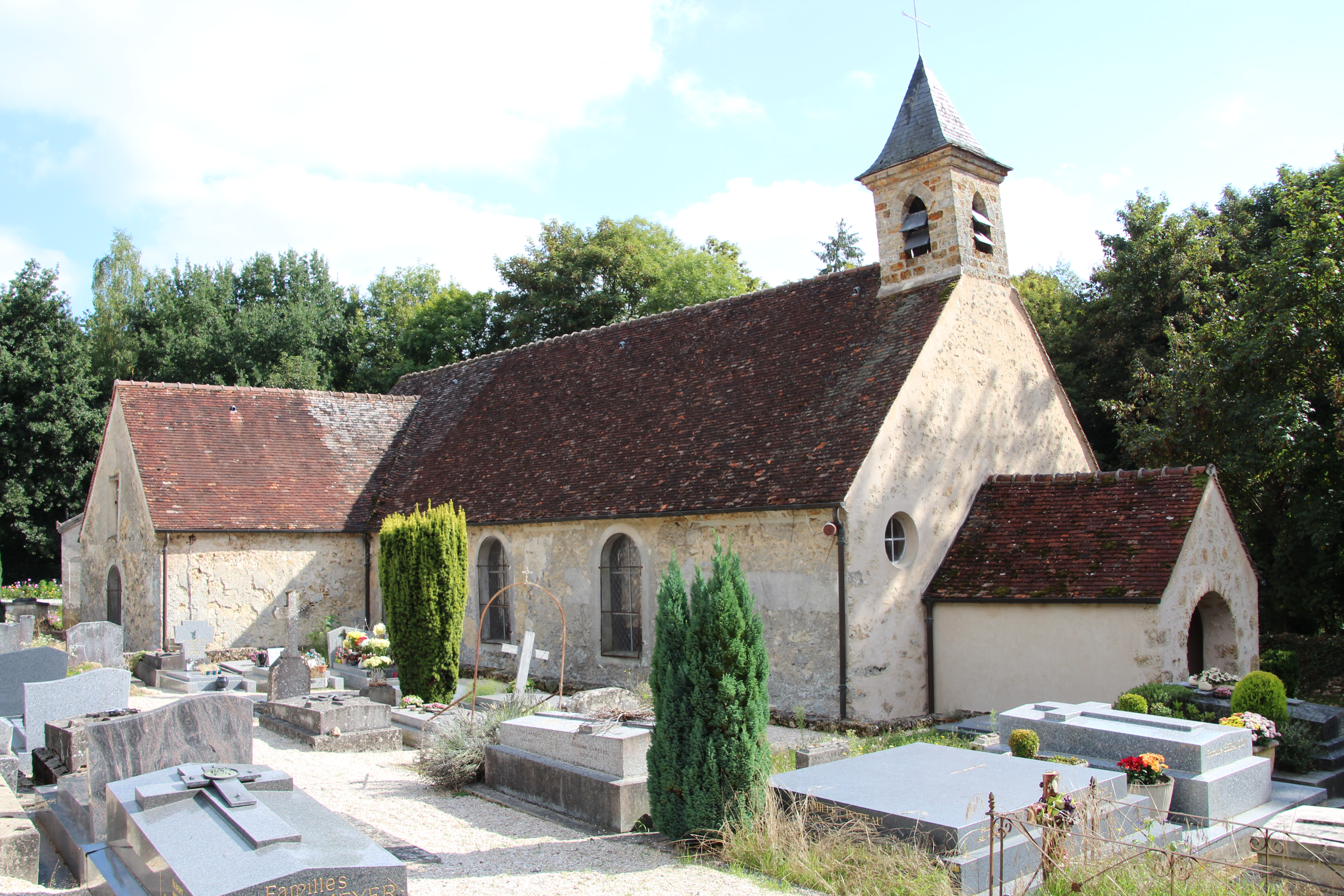 Saint-Ferréol church of Saint-Forget, France